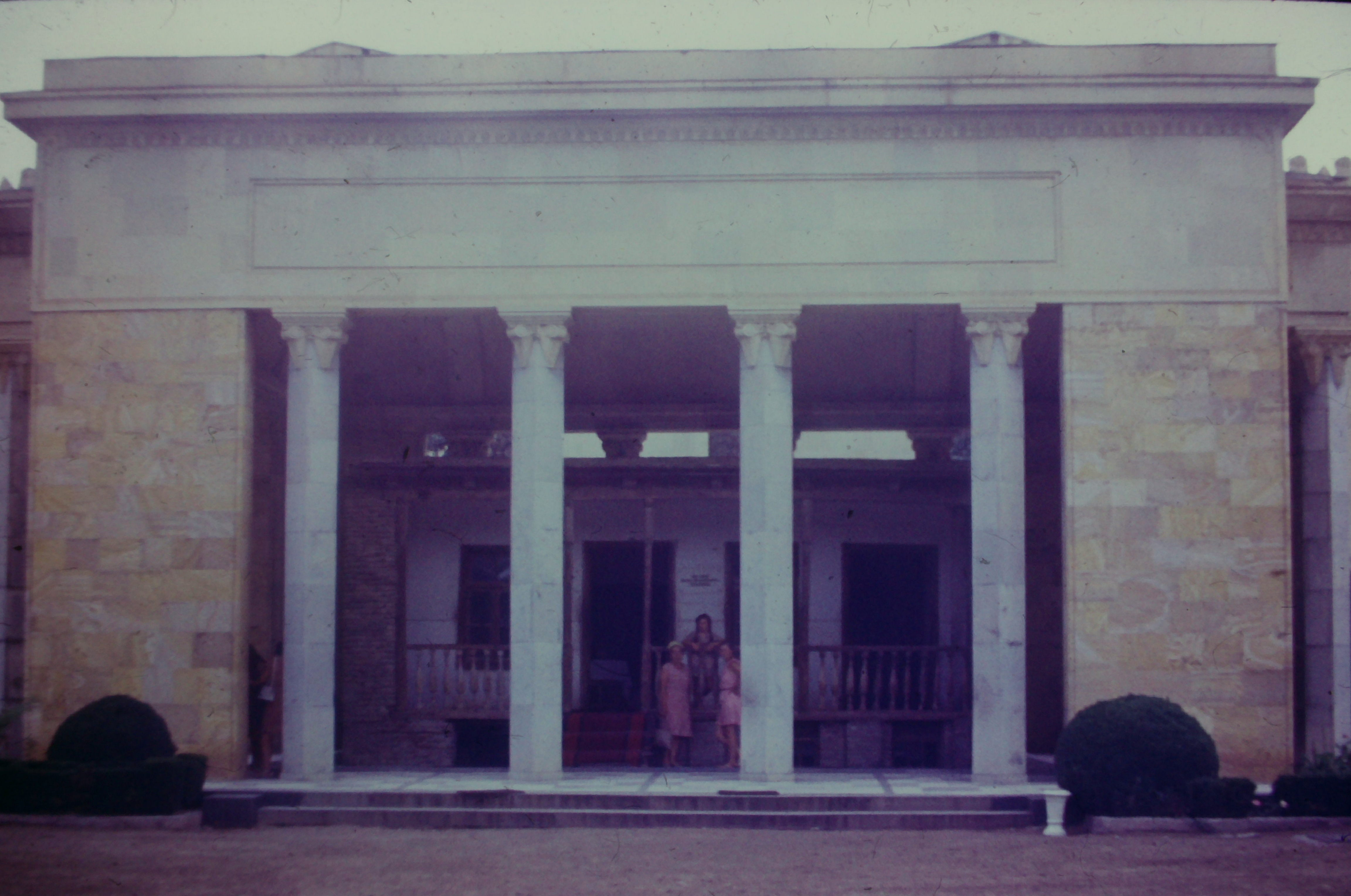 Stalin haus in Gori